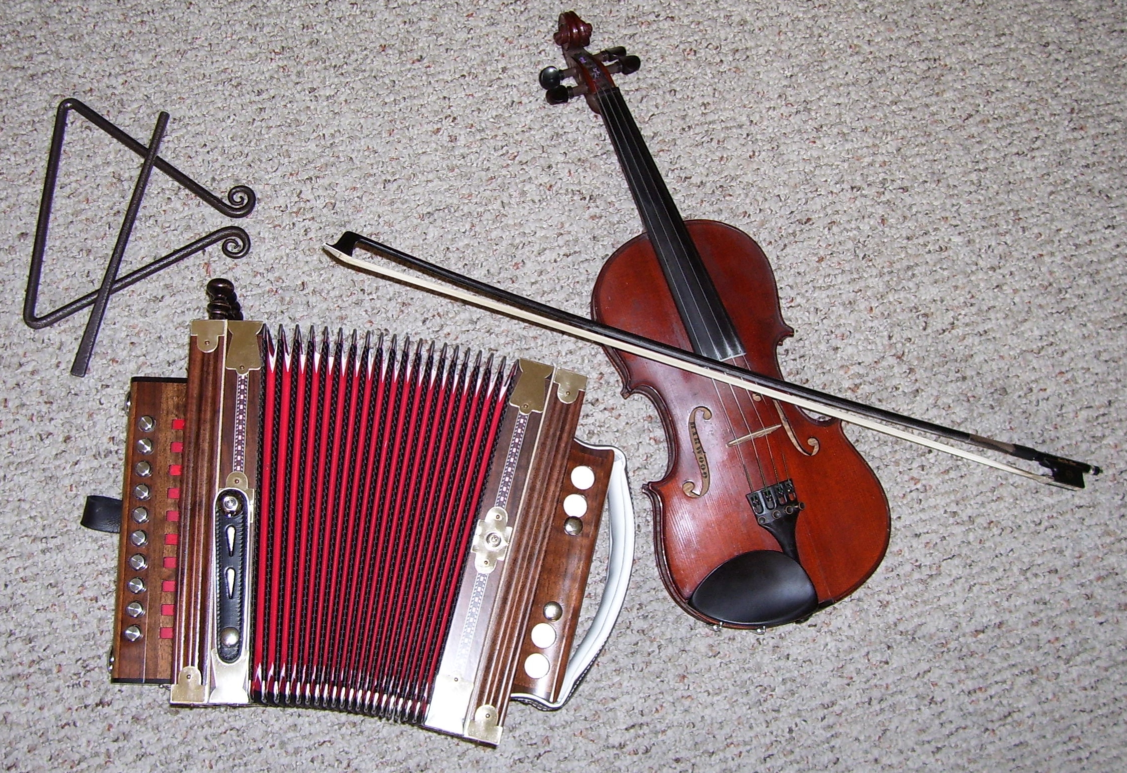 Typical instruments in a Cajun band.